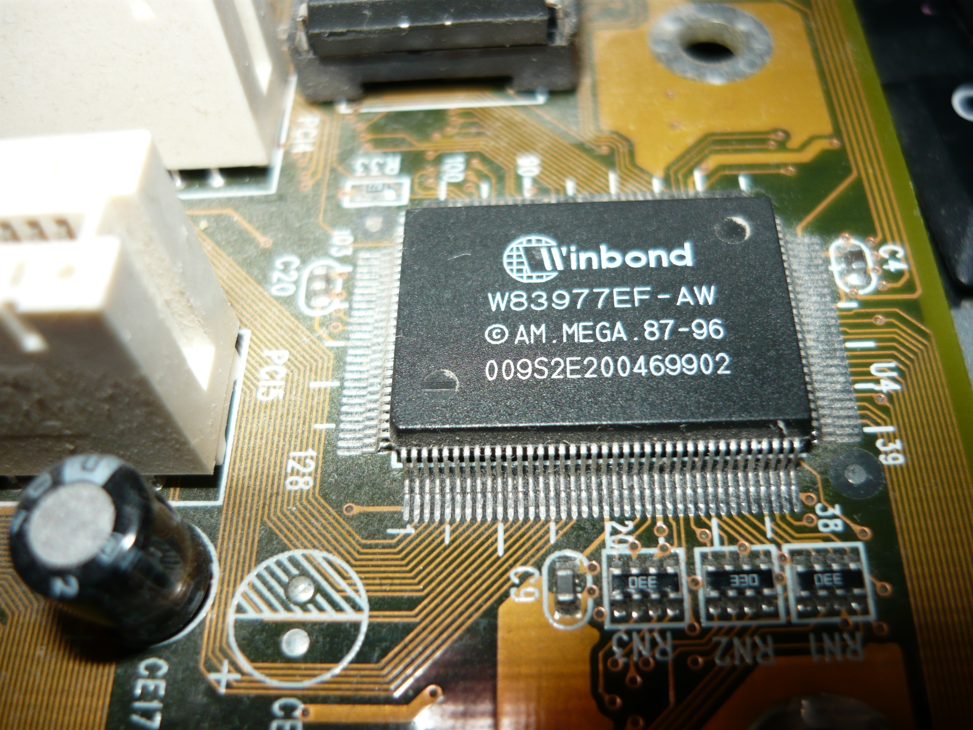 Winbond Super I/O chip W83977EF-AW